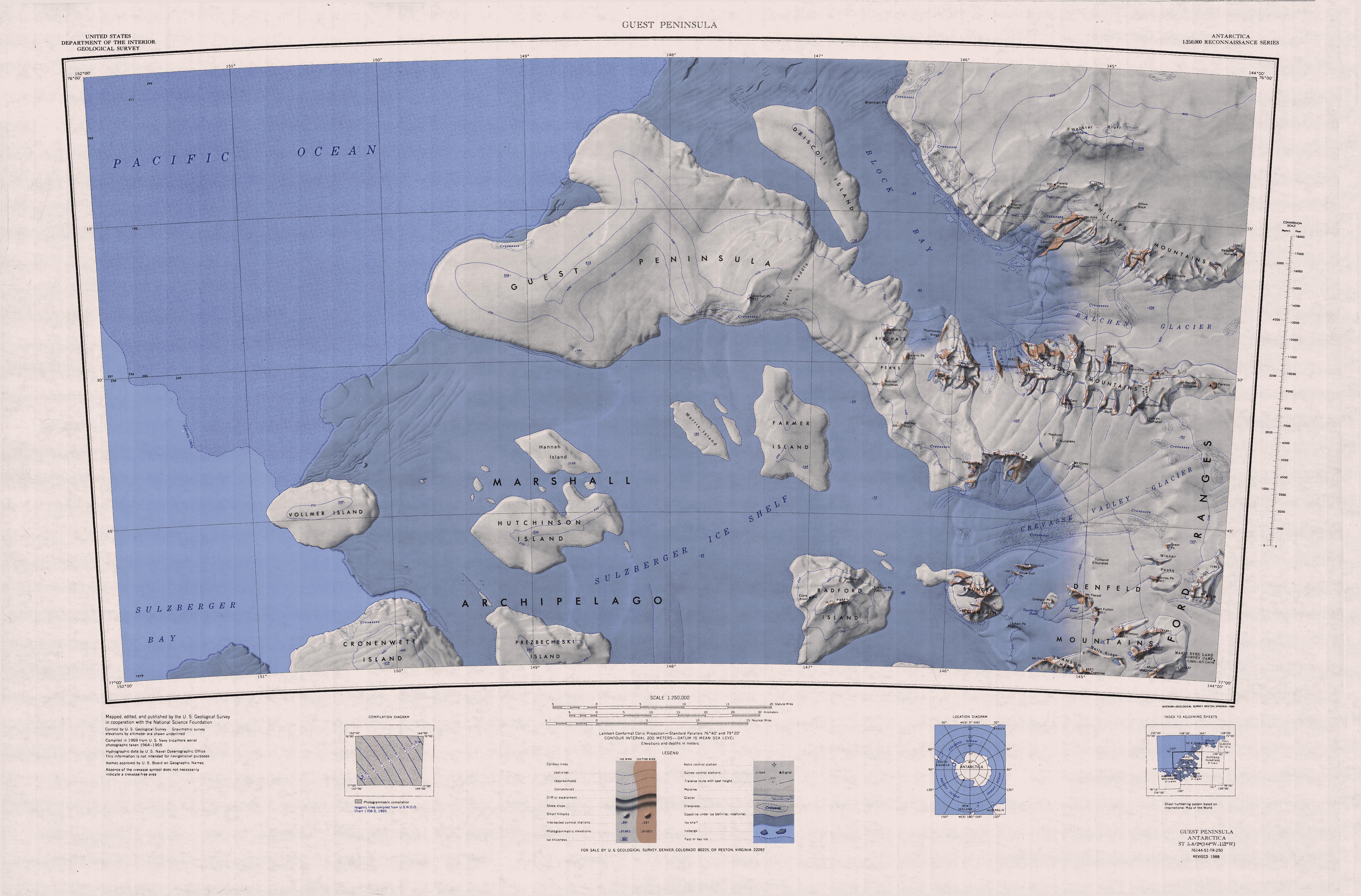 Map of Antarctica by the United States Antarctic Resource Center of the US Geological Society.